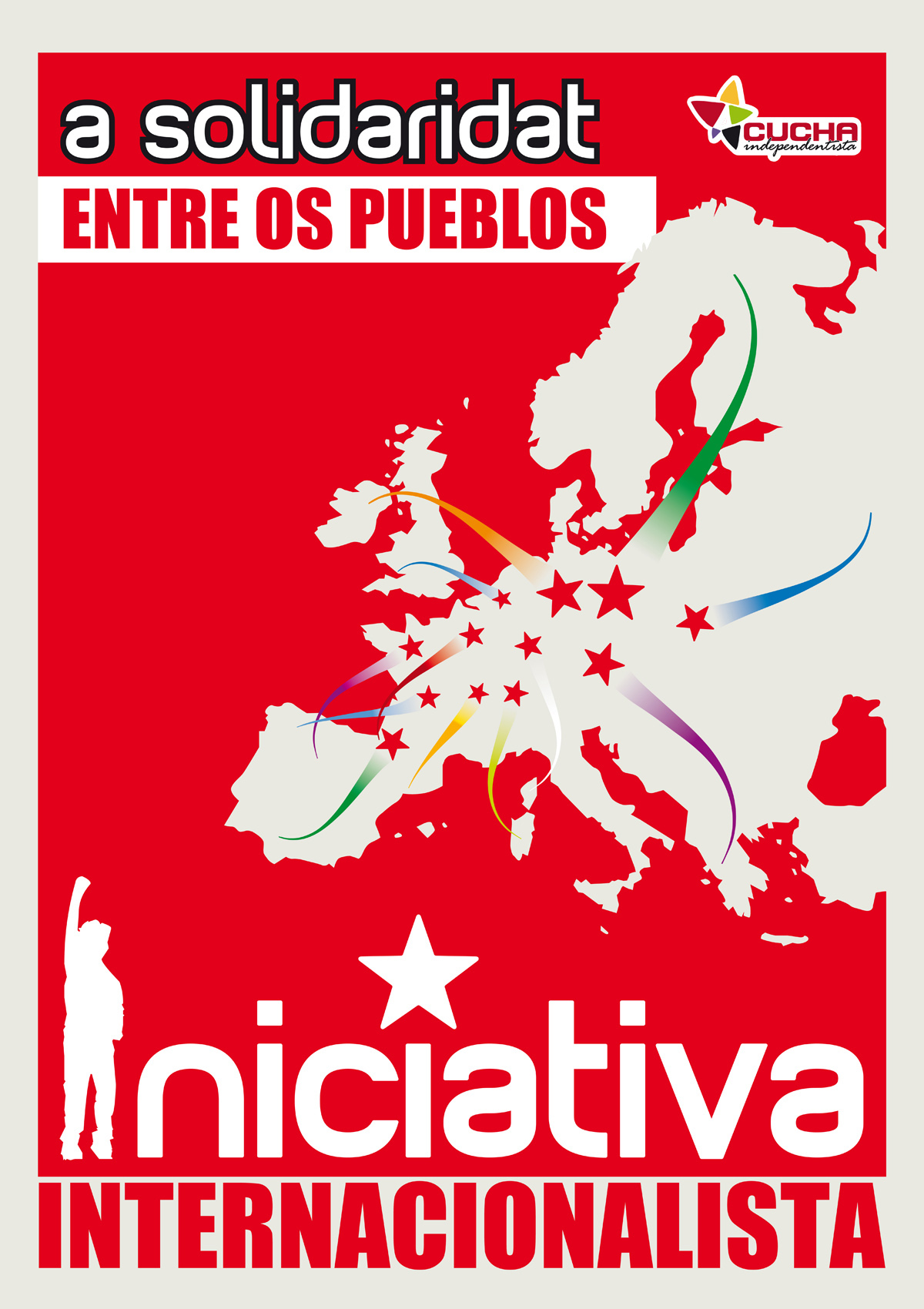 Logo of the Spanish political party Iniciativa Internacionalista.